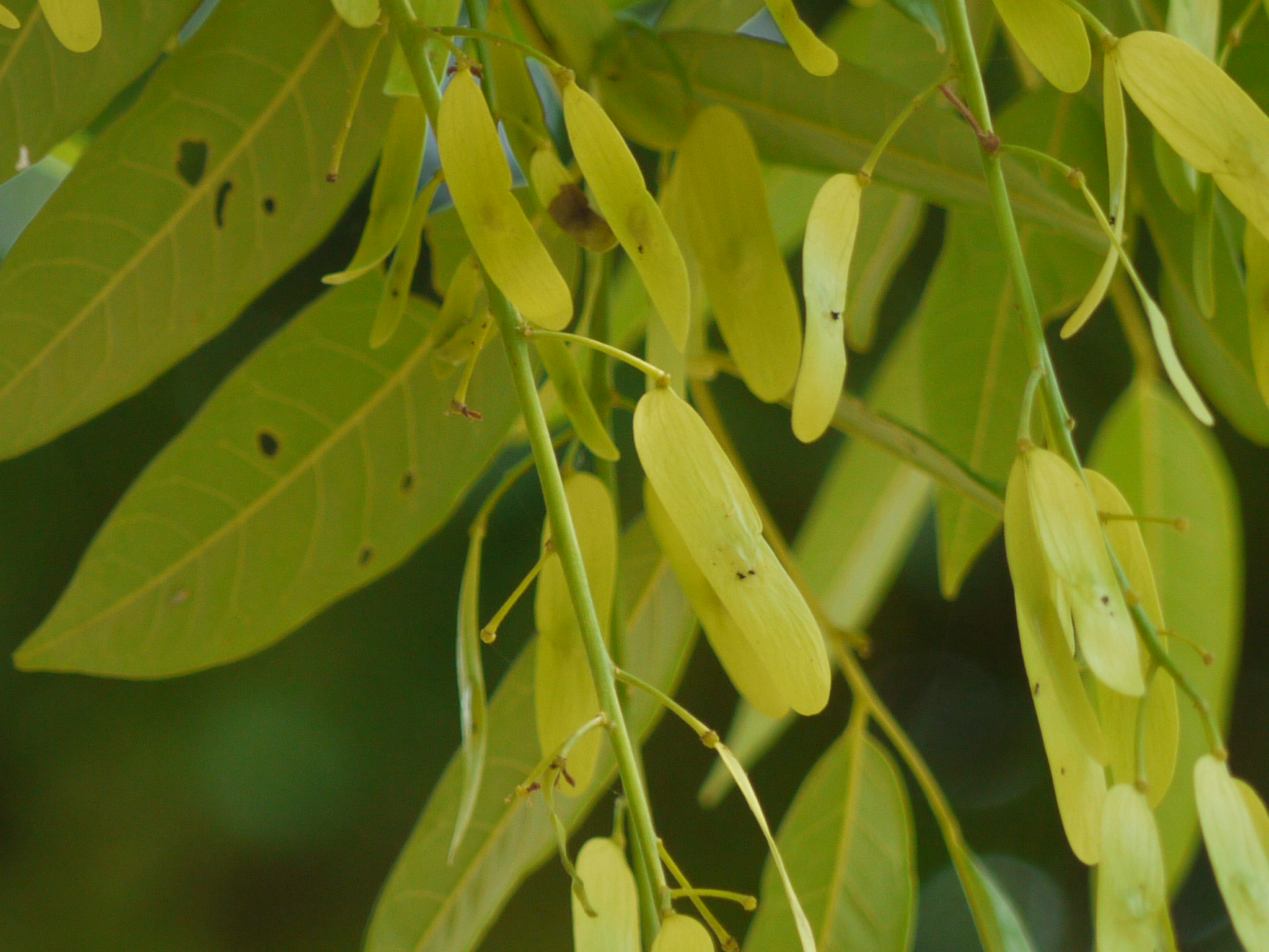 Ailanthus triphysa